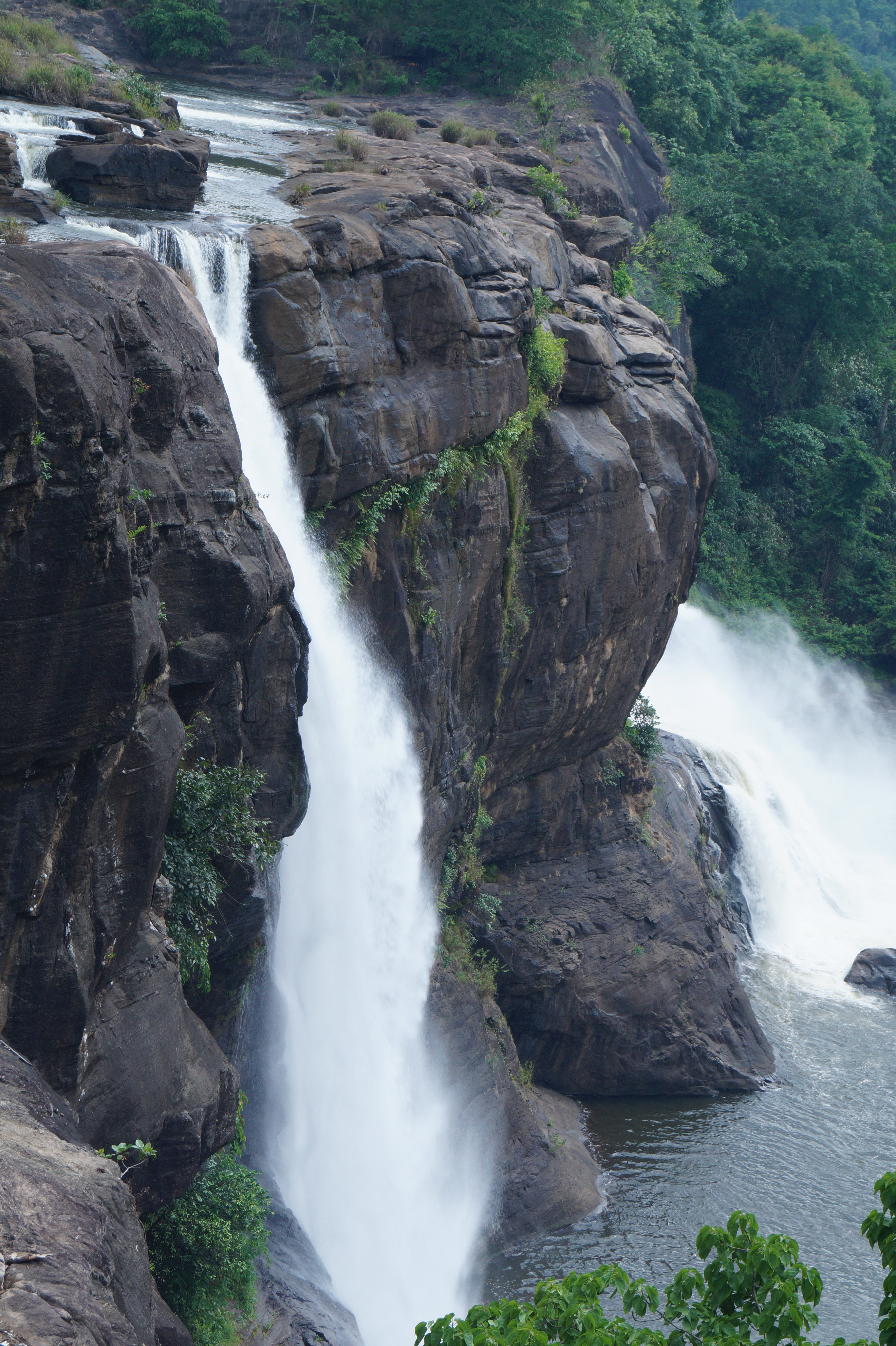 An awesome falls located at kerala